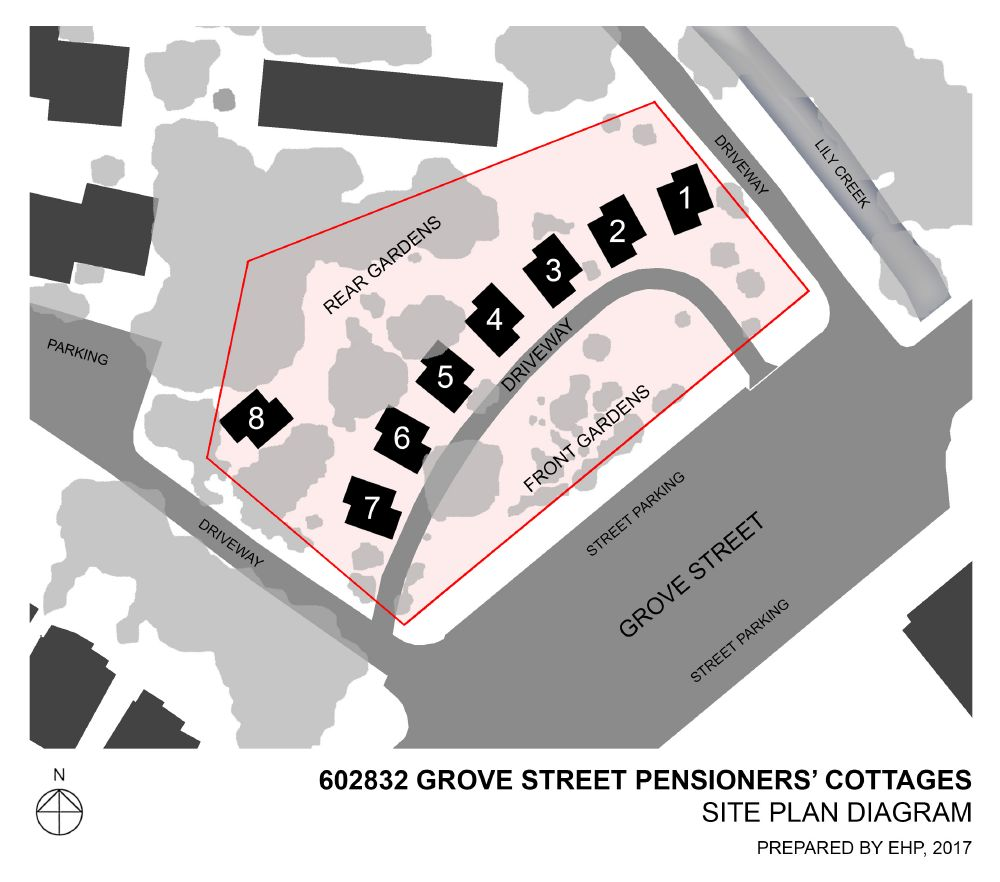 Site Plan diagram (EHP, 2017)